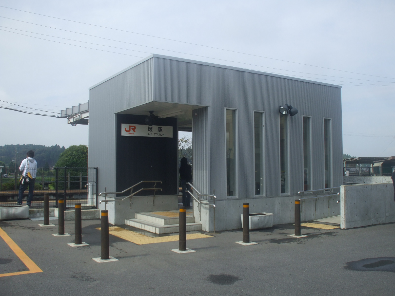 JR Hime Station at Tajimi city Gifu Pref.